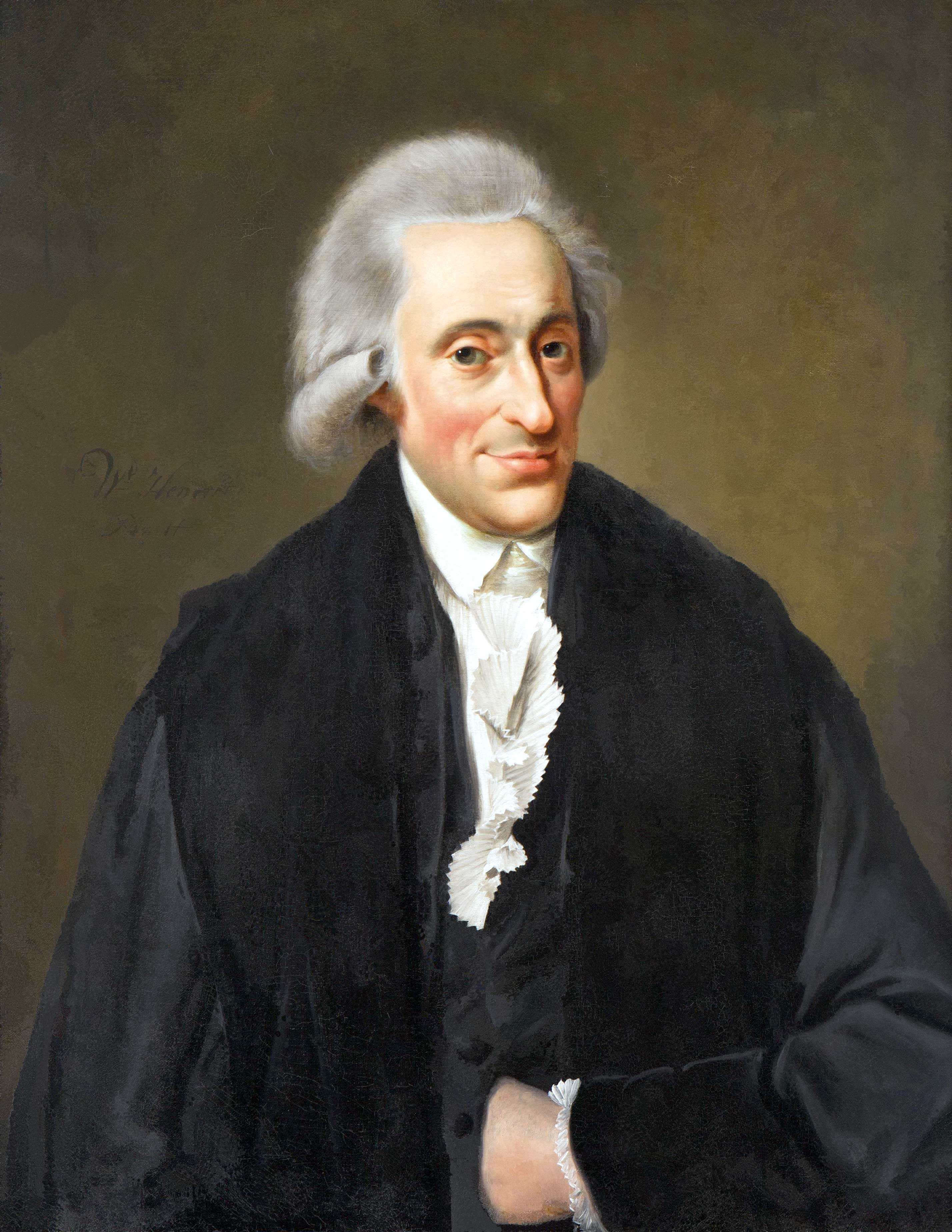 Hendrik Albert Schultens also: Heinrich Albert Schultens, Henry Albert Schultens (1749-1793) German orientalist